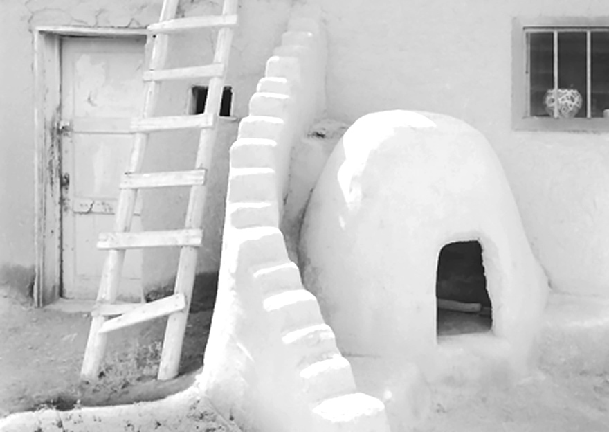 Oven (hornito), ladder, and doorways in Taos Pueblo, early 80s